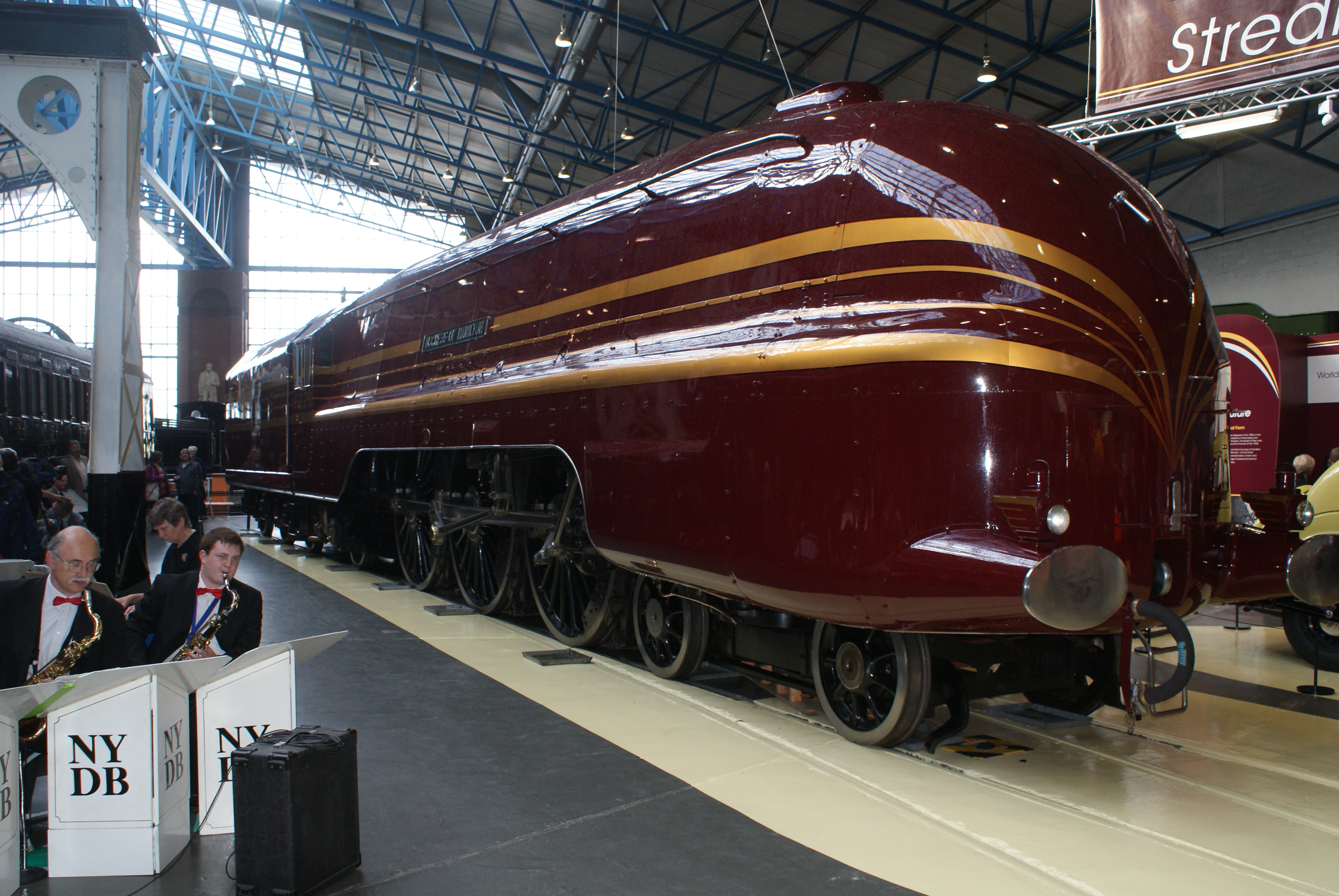 LMS Princess Coronation Class Duchess of Hamilton at the National Railway Museum, in streamlined condition